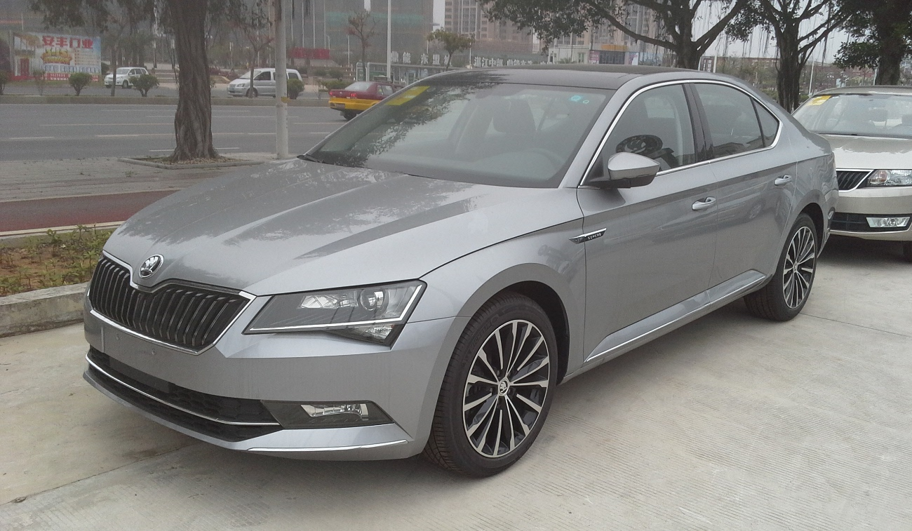 Škoda Superb III photographed in Zhanjiang, Guangdong province, China.